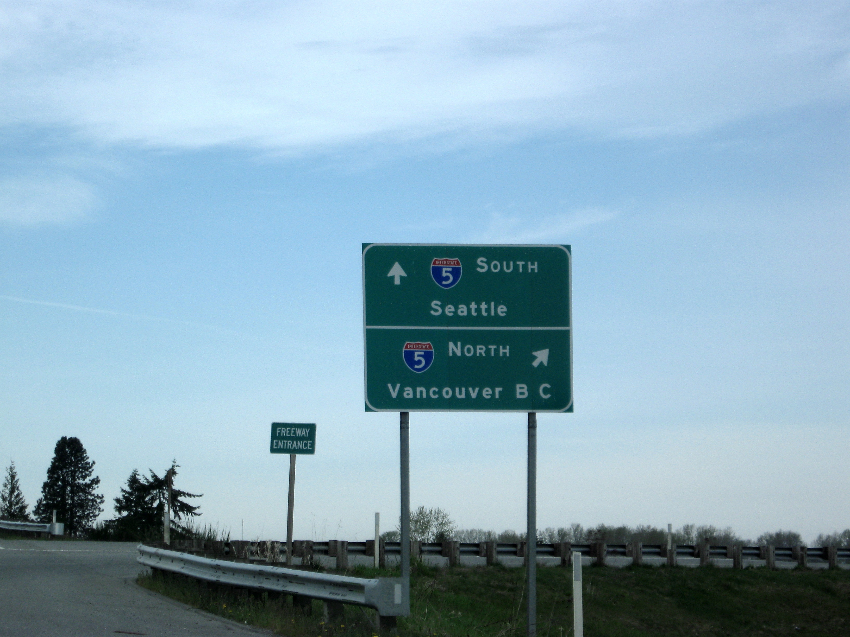 Freeway entrance sign, indicating Interstate 5 north to Vancouver to the right and I-5 south to Seattle to the left.